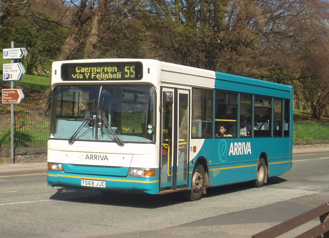 Dennis Dart MPD in Bangor